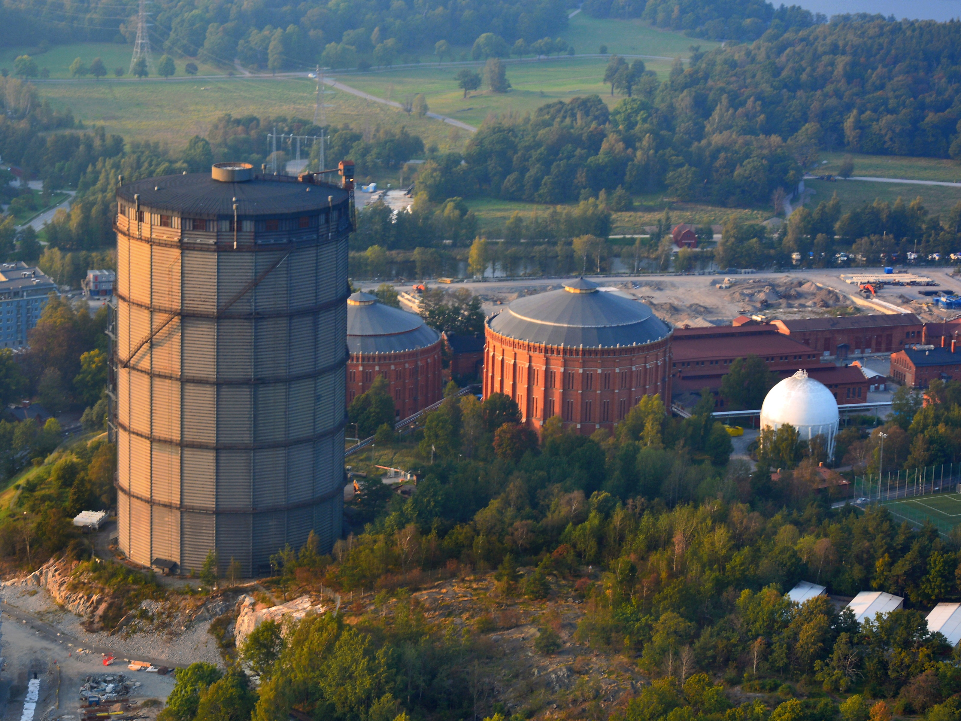 Gass bells at the gasworks in Ropsten, Stockholm, Sweden.